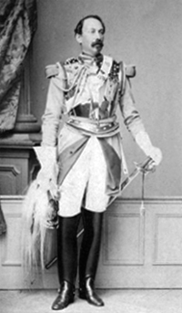 Colonel Baron Jacques Albert Verly, commanding officer of the Cent-Gardes Scadron during the Second French Empire.